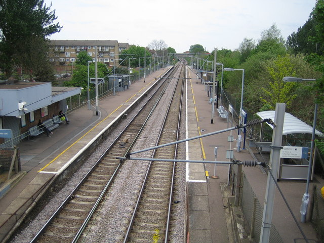 Ponders End railway station